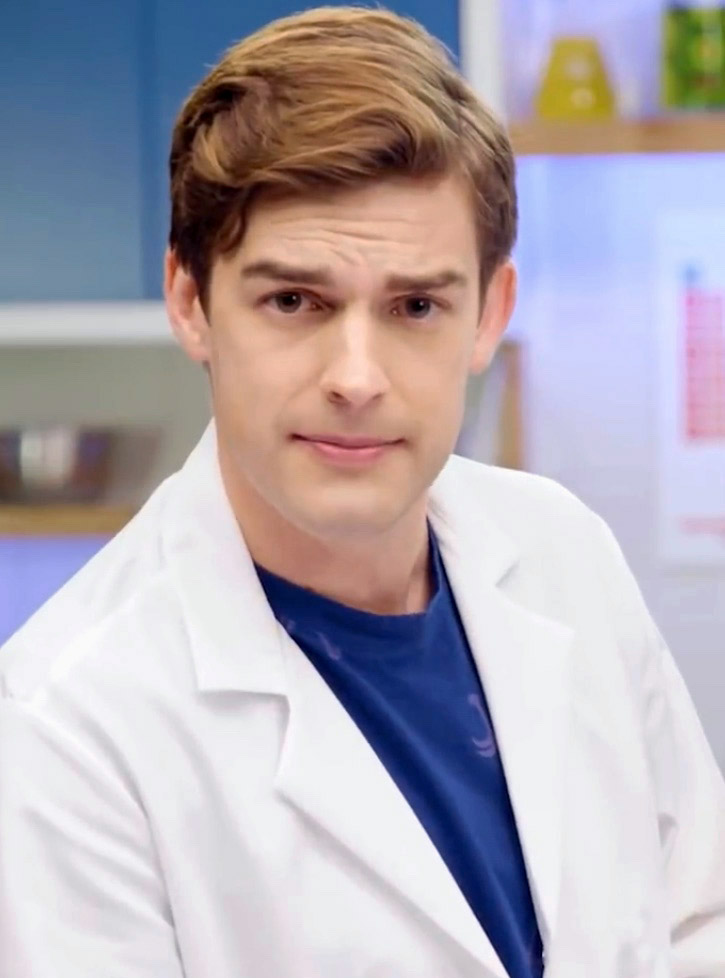 Matthew Patrick (MatPat) on episode 1 of NickRewind's Fact or Nicktion (Could Drake and Josh ACTUALLY Impersonate a Doctor?)